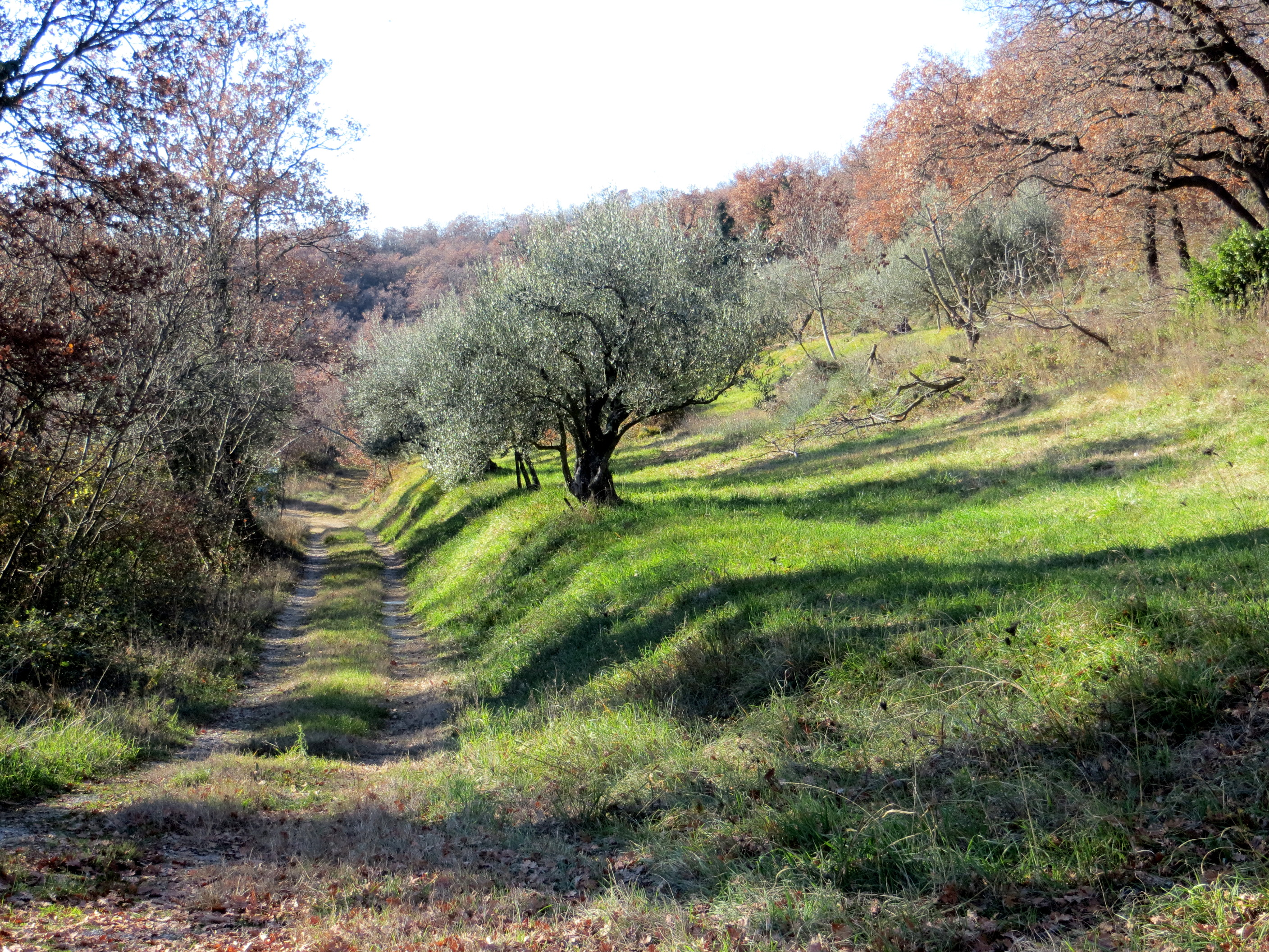 A path past an olive grove in Draga, a hamlet of Korte, Municipality of Izola, Slovenia